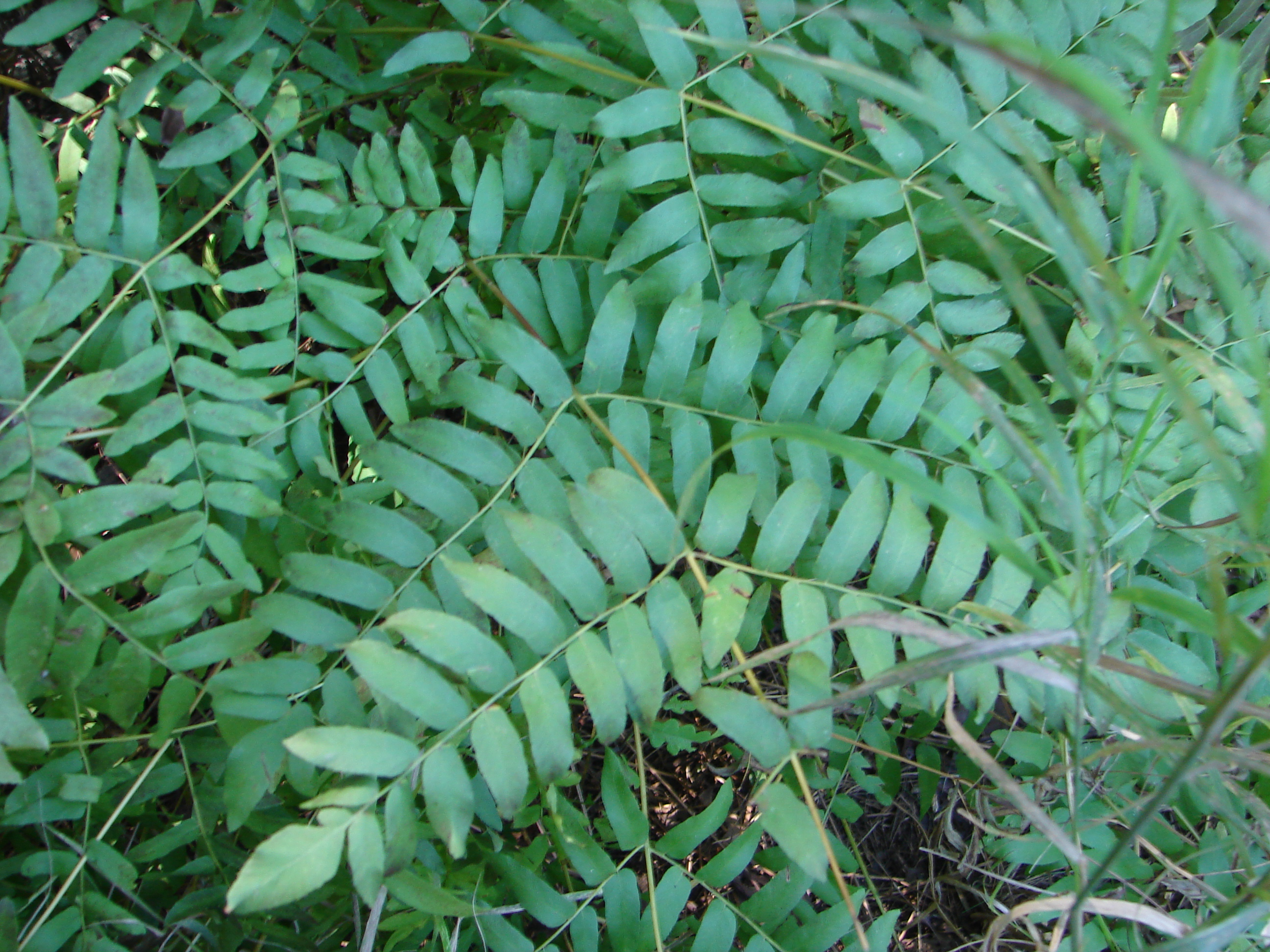 Close up of American Royal Fern, Osmunda spectabilis growing at Stevens Point Area Senior High, Stevens Point, Wisconsin.